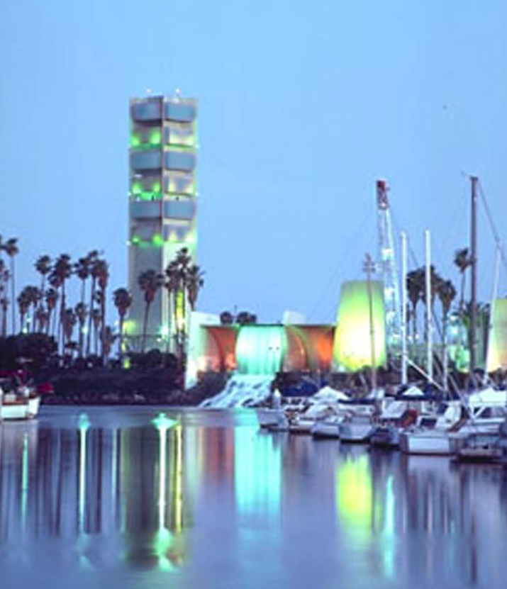 THUMS Islands